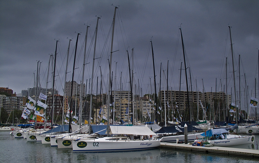 The calm before the storm. Sydney to Hobart yachts waiting to start. Christmas day, Rushcutters Bay, Sydney, Australia